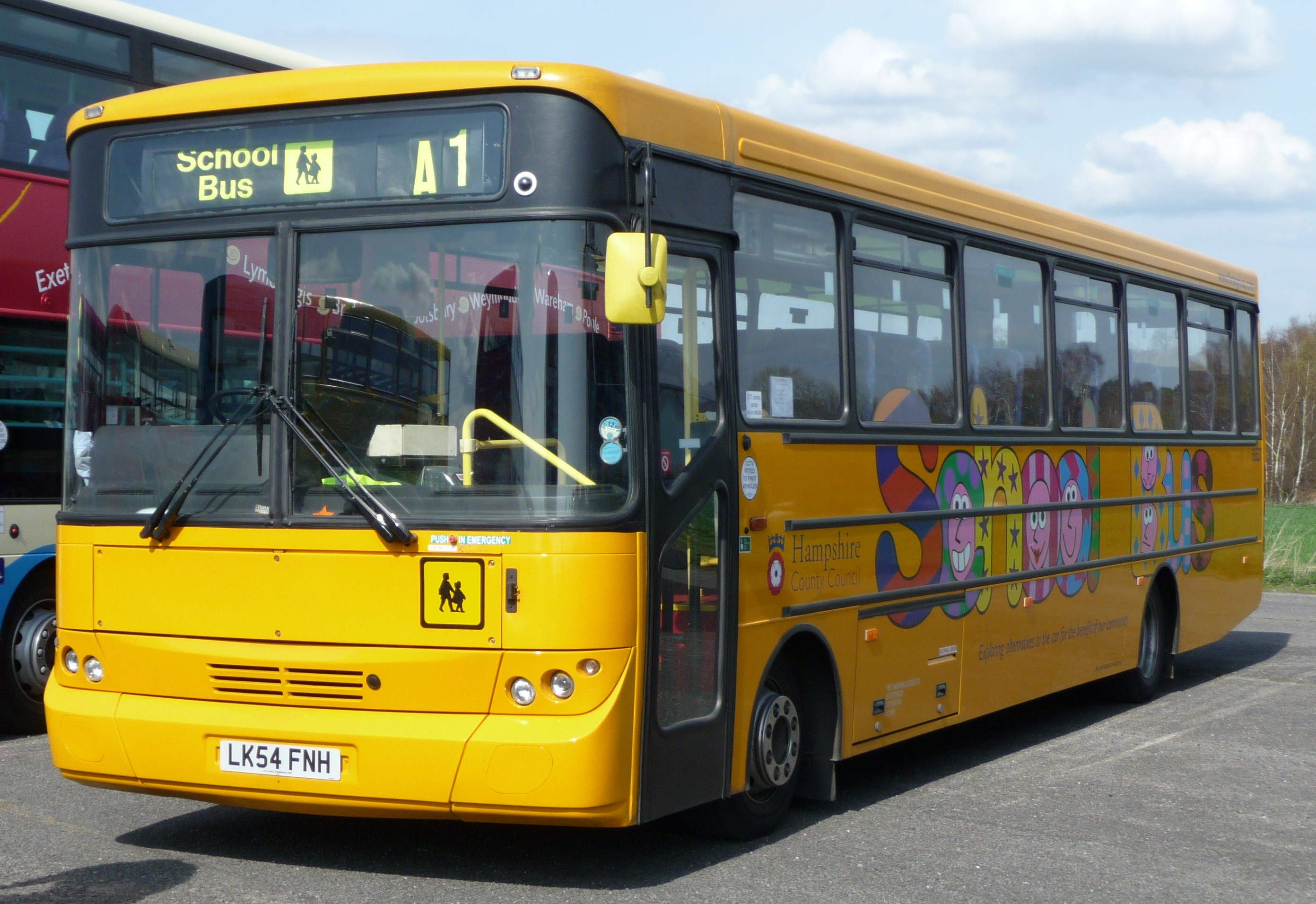 First Hampshire & Dorset's 68537 (LK54 FNH), a BMC 1100FE, at the 2009 Cobham bus rally at Wisley Airfield.